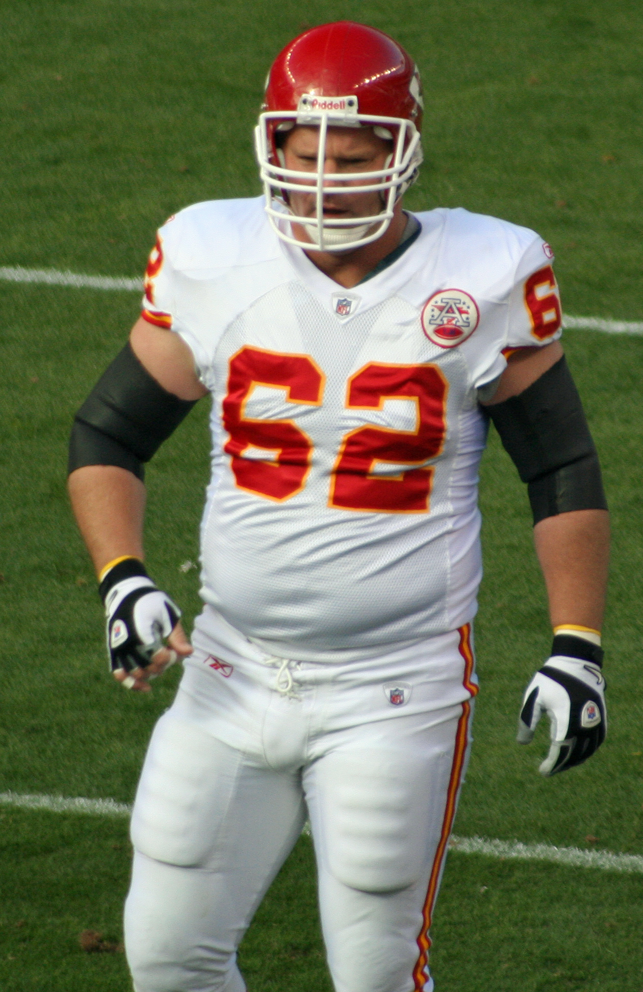 Casey Wiegmann, a player on the Kansas City Chiefs American football team.